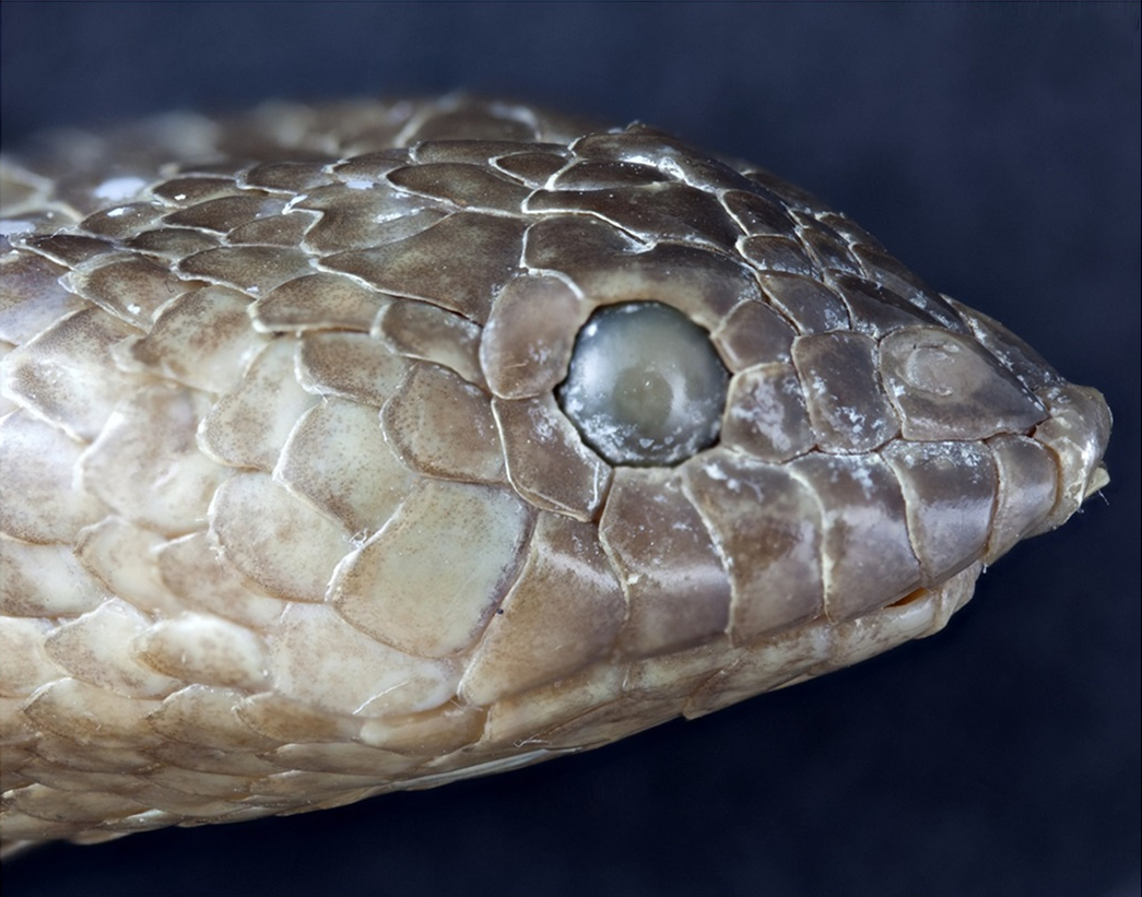 Aipysurus foliosquama specimen (WAM R150365) from Barrow Island, Australia